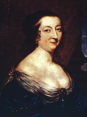 Portrait of Mme de Rambouillet. Oil on canvas, House of the Dukes of Uzès.